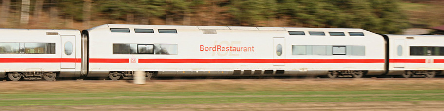 The BordRestaurant of an ICE 1 high-speed train.